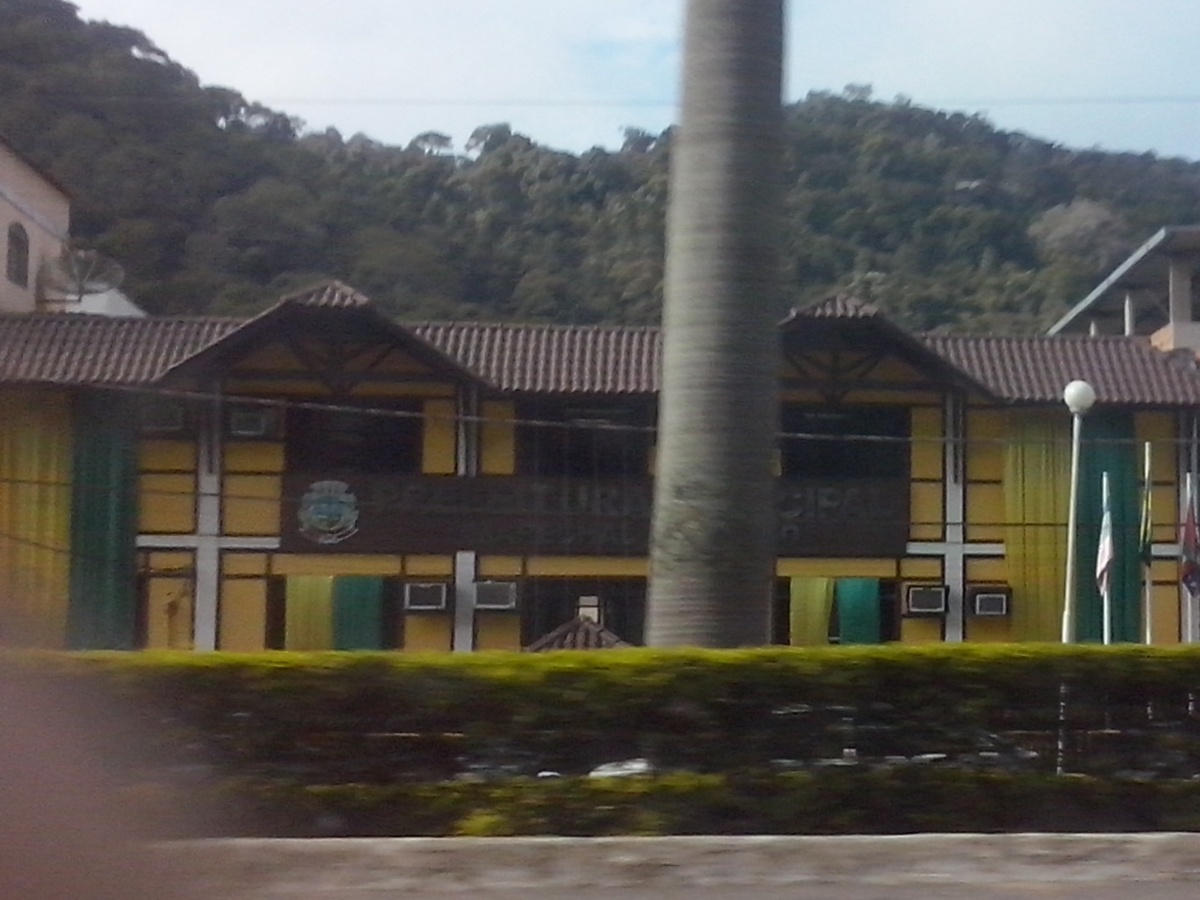 City hall of Marechal Floriano, Espírito Santo, Brazil.